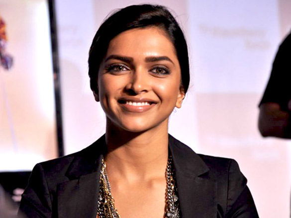 Deepika Padukone unveils the new Blackberry Torch